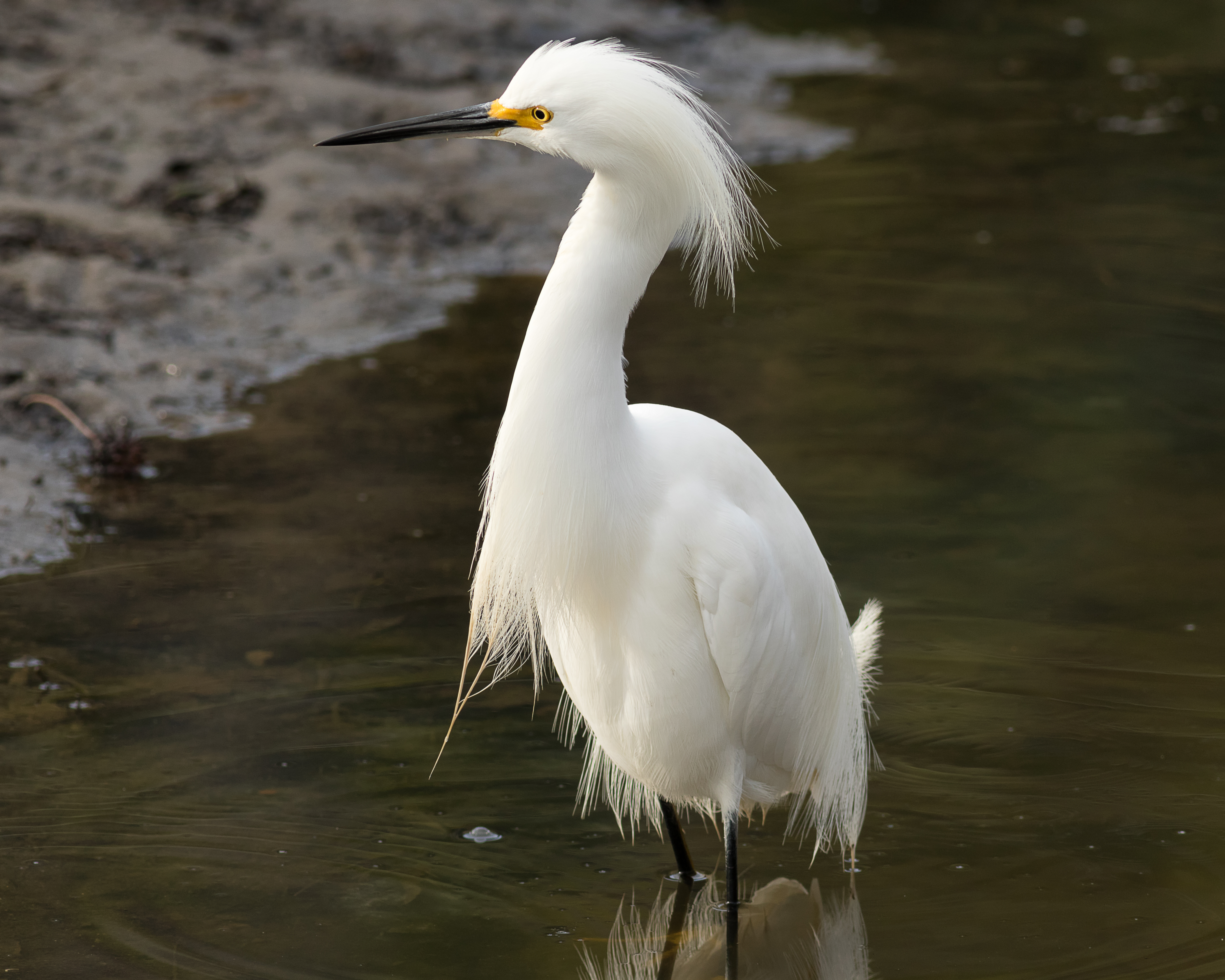 Juvenily snowy egret (Egretta thula) in the marshes of Strawberry, California